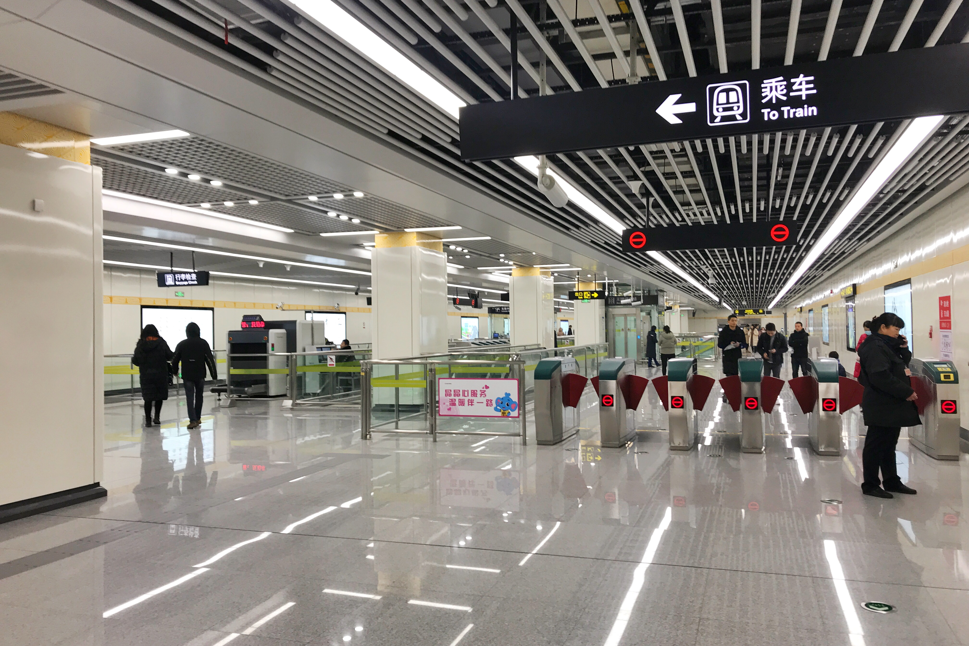 Concourse of Jinwa Station